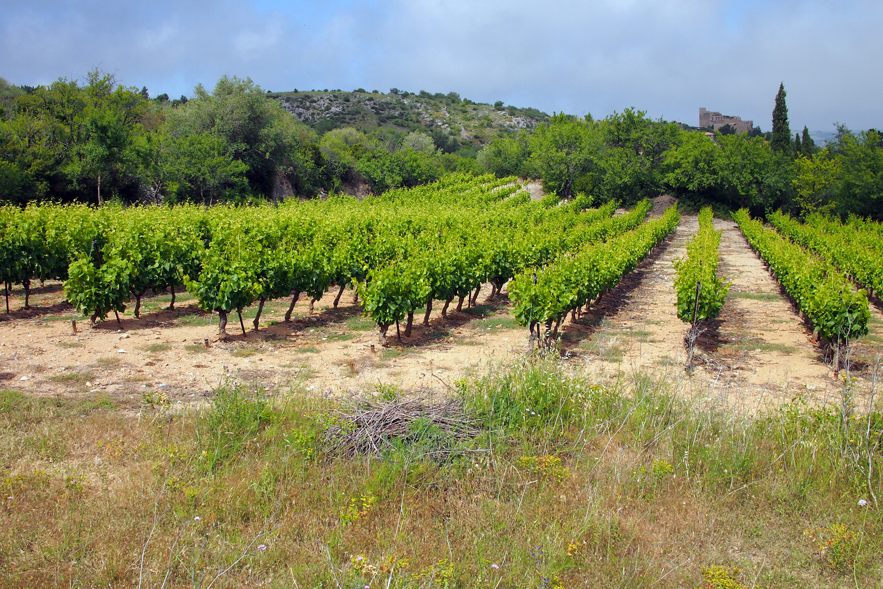 Fitou AOC